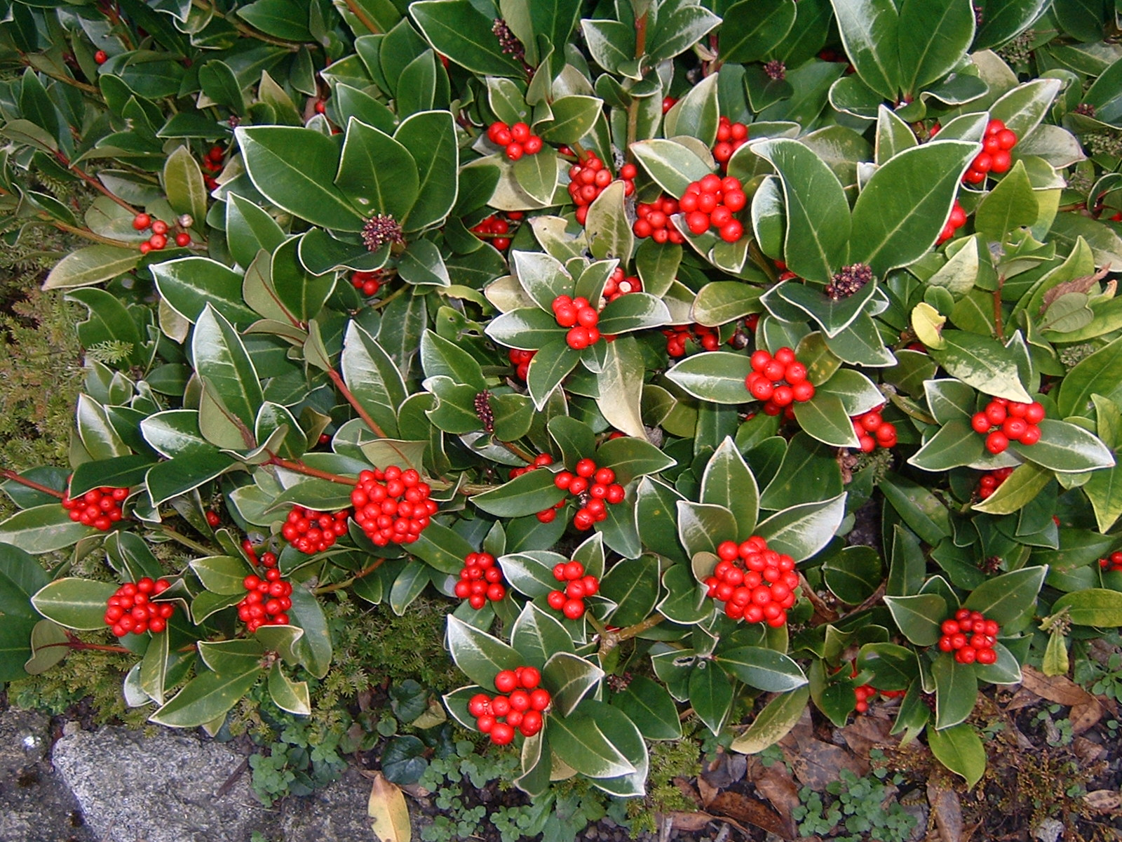 Photographed by Musical Linguist from her garden.